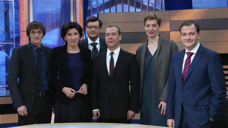 Dmitry Medvedev's interview with Russian journalists